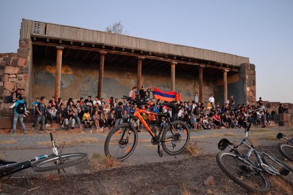 Participants of the event "Night Biking-7" greeted the sunrise at the ancient fortress of Erebuni (Yerevan, Armenia).